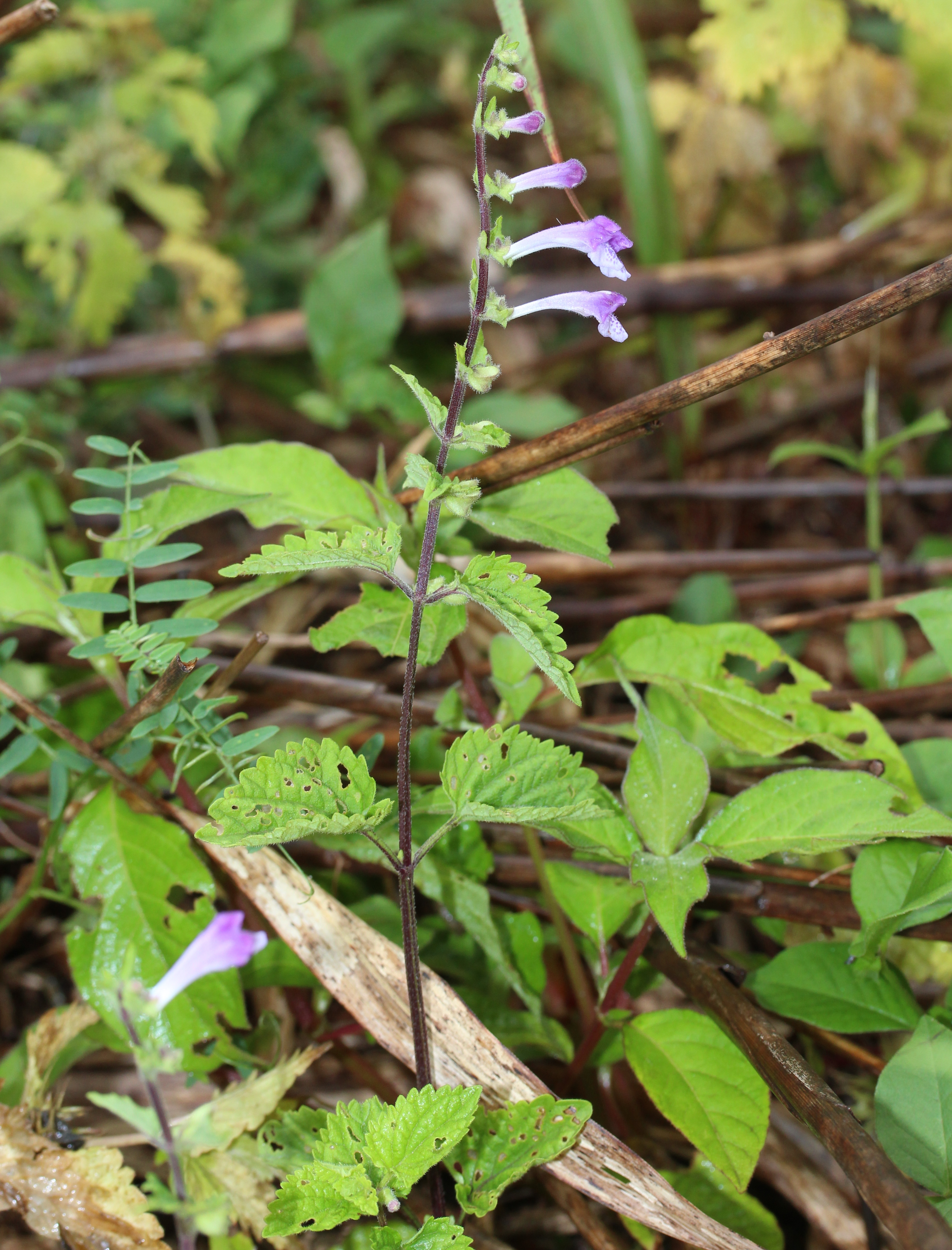 Scutellaria pekinensis var. transitra in Mount Ibuki, Maibara, Shiga prefecture, Japan.